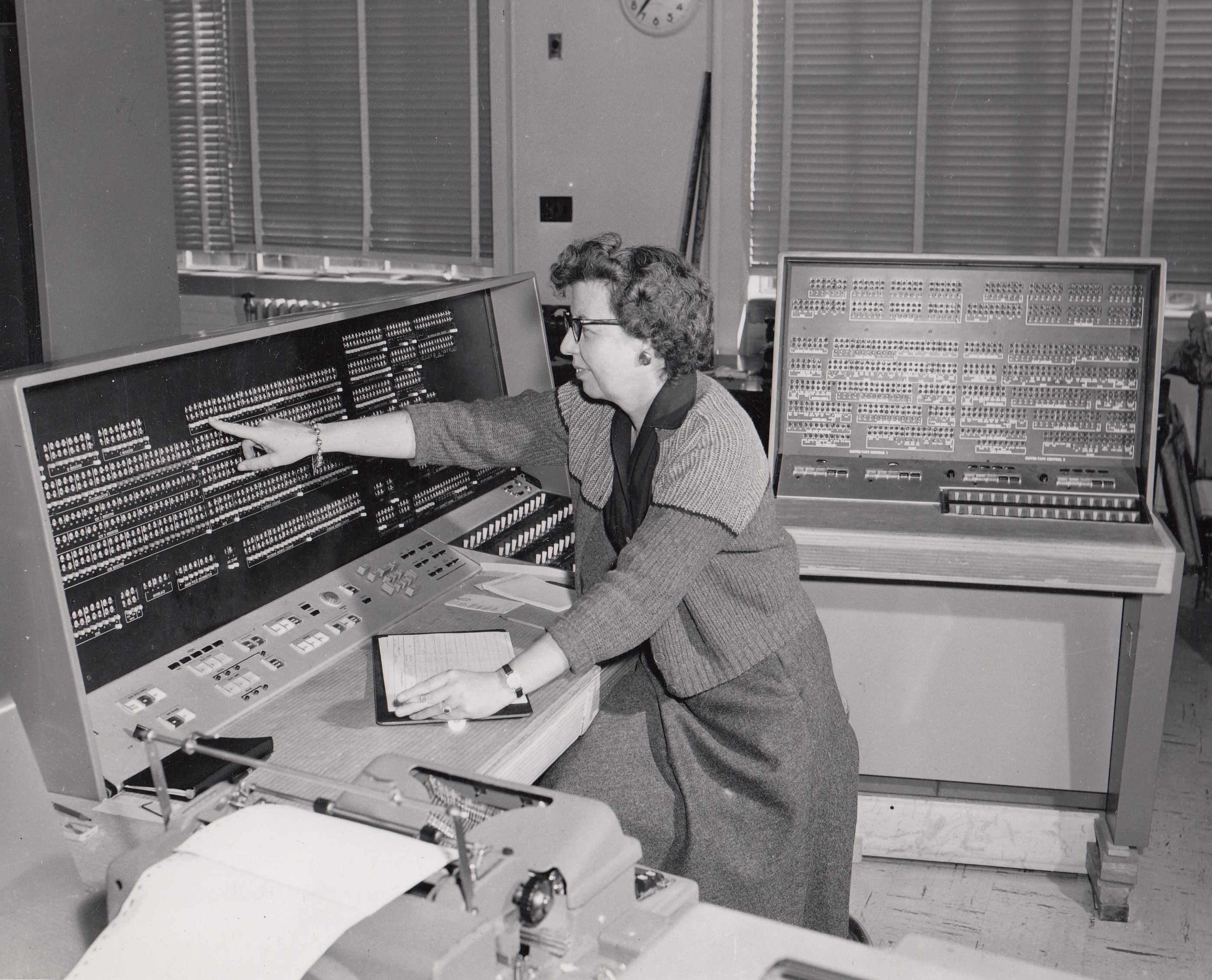 A U.S. Census Bureau employee uses a UNIVAC 1105 computer to tabulate data following the 1960 Census. The UNIVAC 1105 computers replaced the UNIVAC I computers installed at the Census Bureau in the early 1950s.